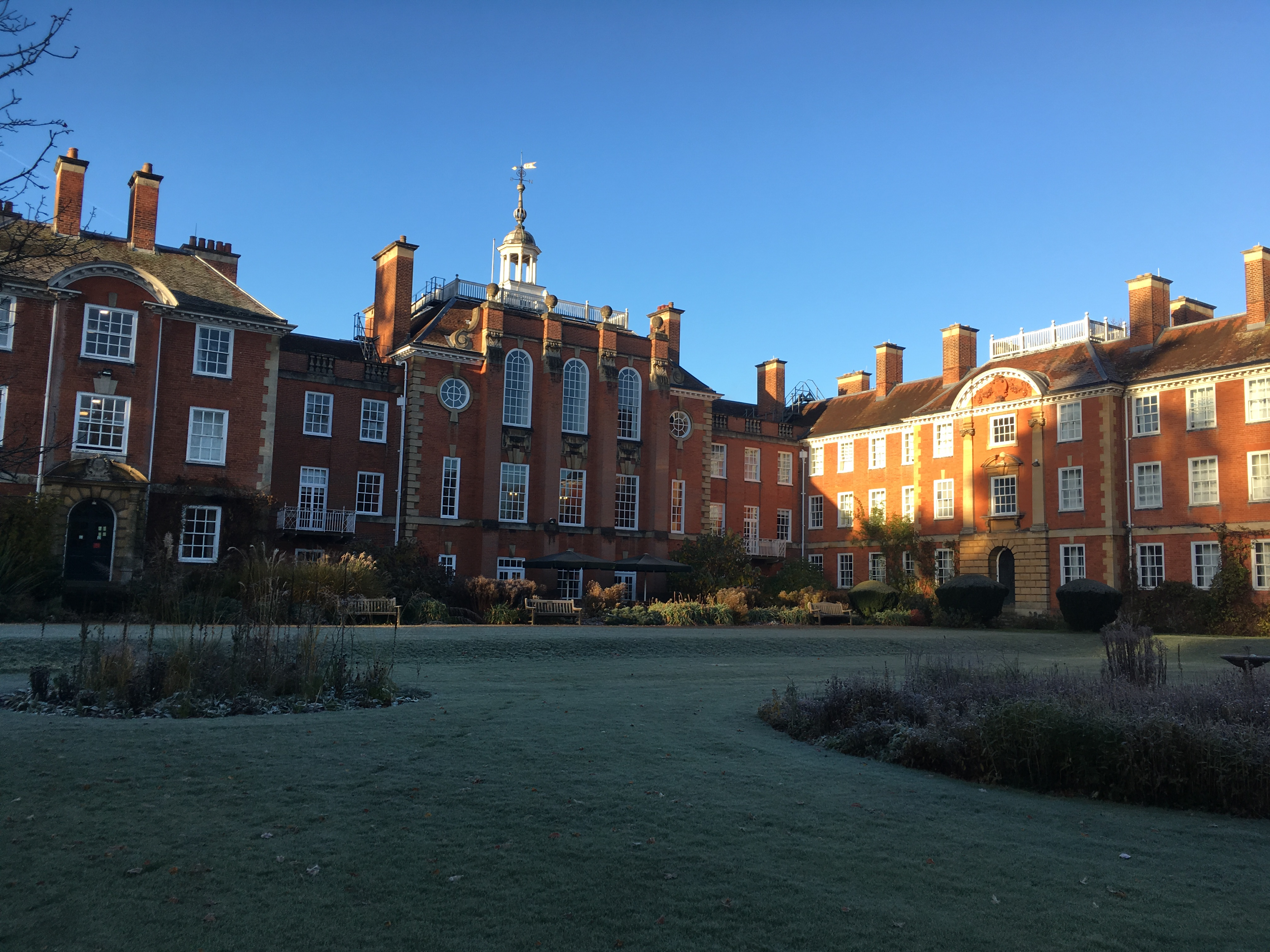 Talbot Hall and the Toynbee building from the Gardens on a winter morning